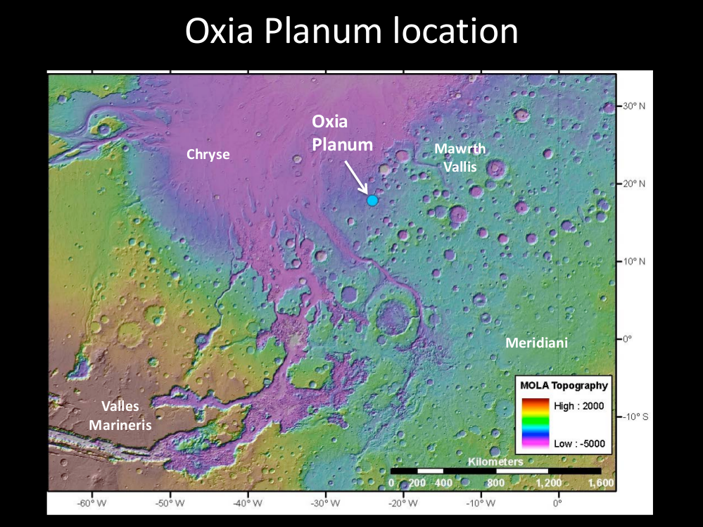 Oxia Planum Location Map - May 14, 2014 PNG Image From Original PDF Document via GIMP v2.8.14 Program.